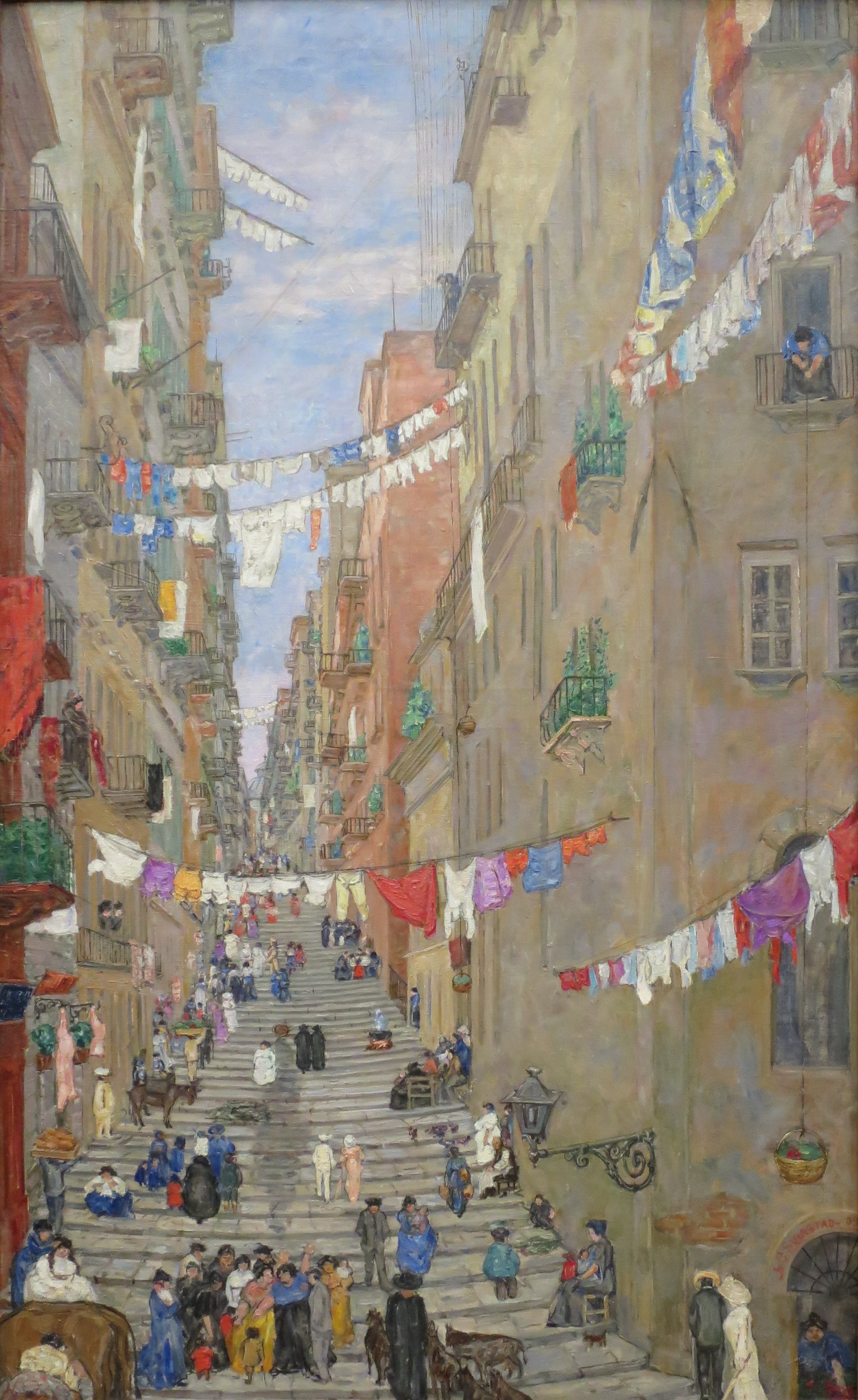 Palonetto, Sta. Lucia, Naples by Anders Svarstad, 1909, oil on canvas, Bergen Kunstmuseum